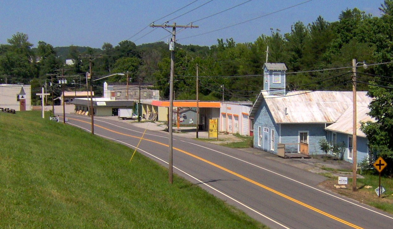 US-27 passing through Sunbright, Tennessee, in the southeastern United States.